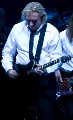 Joe Walsh with the Eagles, during their Long Road out of Eden Tour in 2008.